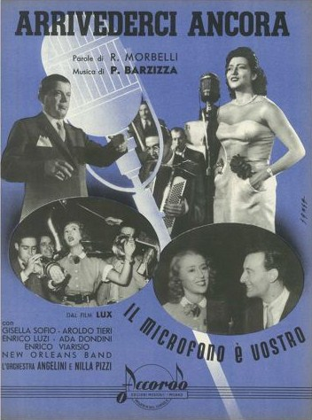 Cover "Arrivederci Ancora". The Publishing Accordo are part of Gruppo Editoriale Curci.